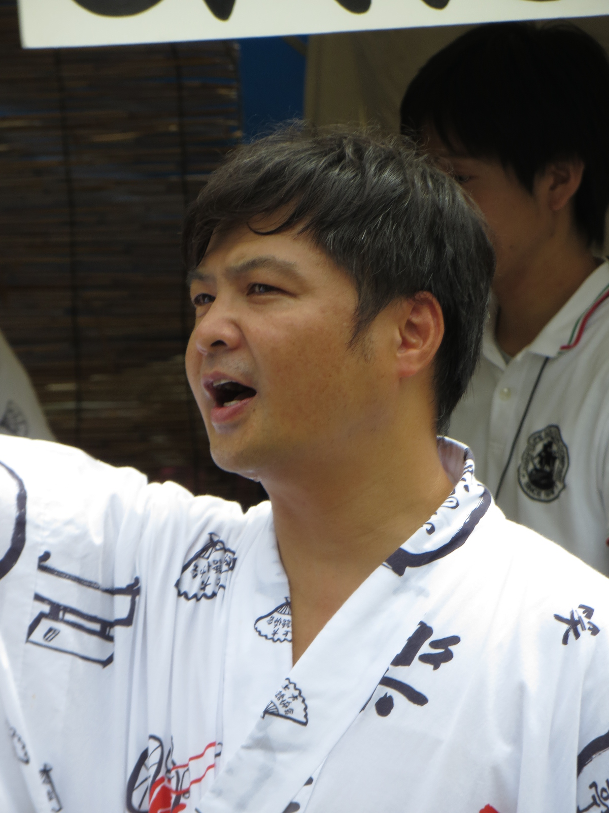 Hōsei Tsukitei. taken in 2013.